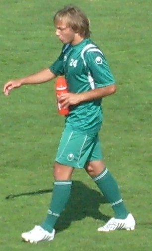 Irakli Klimiashvili - Georgian footballer